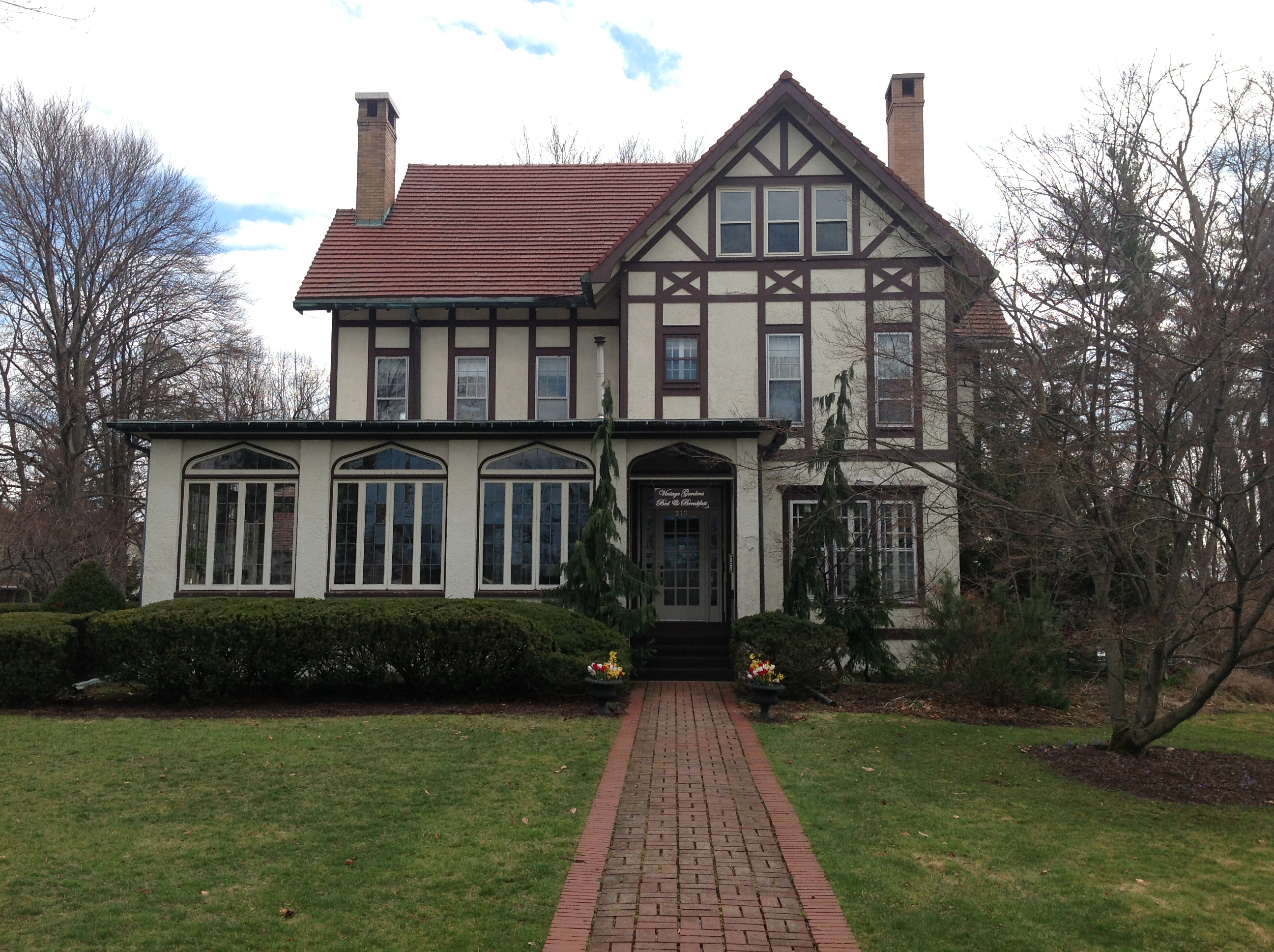 Jackson-Perkins House in Newark, NY, now a bed and breakfast